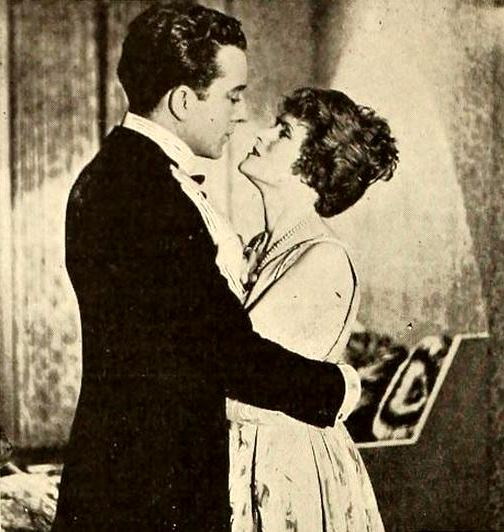 Still from the American film A Favor to a Friend (1919) with Emmy Wehlen and Jack Mulhall, on page 1084 of the August 2, 1919 Motion Picture News.